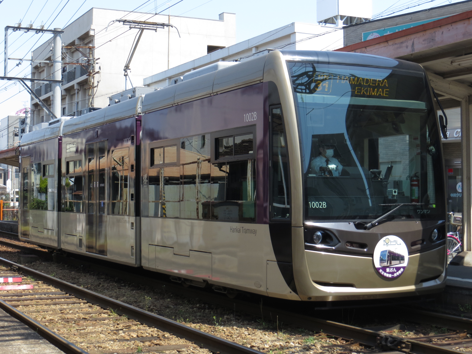 Hankai Tramway #1002 "Shion".